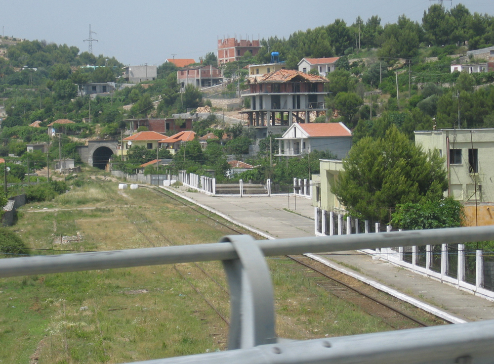 Railway station in Lezhë, Albania - not abandoned